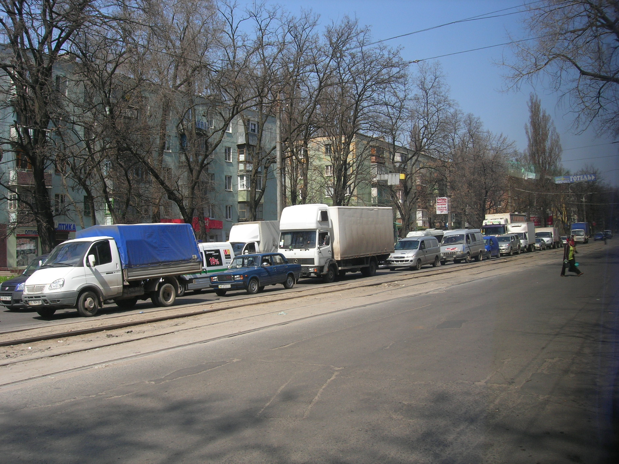 Bogdan Khmelnitsky Avenue (Dnepropetrovsk) in the 12th quarter